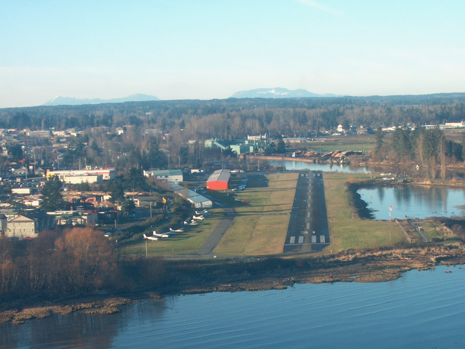 Aerial photograph I took myself on final approach to runway 31 and the Courtenay, British Columbia airport. The Needle Peaks and Mount Menzies are in the background. Canada.